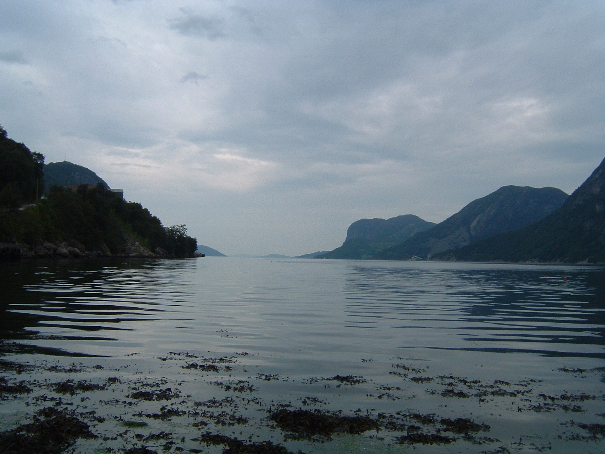 Høgsfjorden seen from Dirdal.